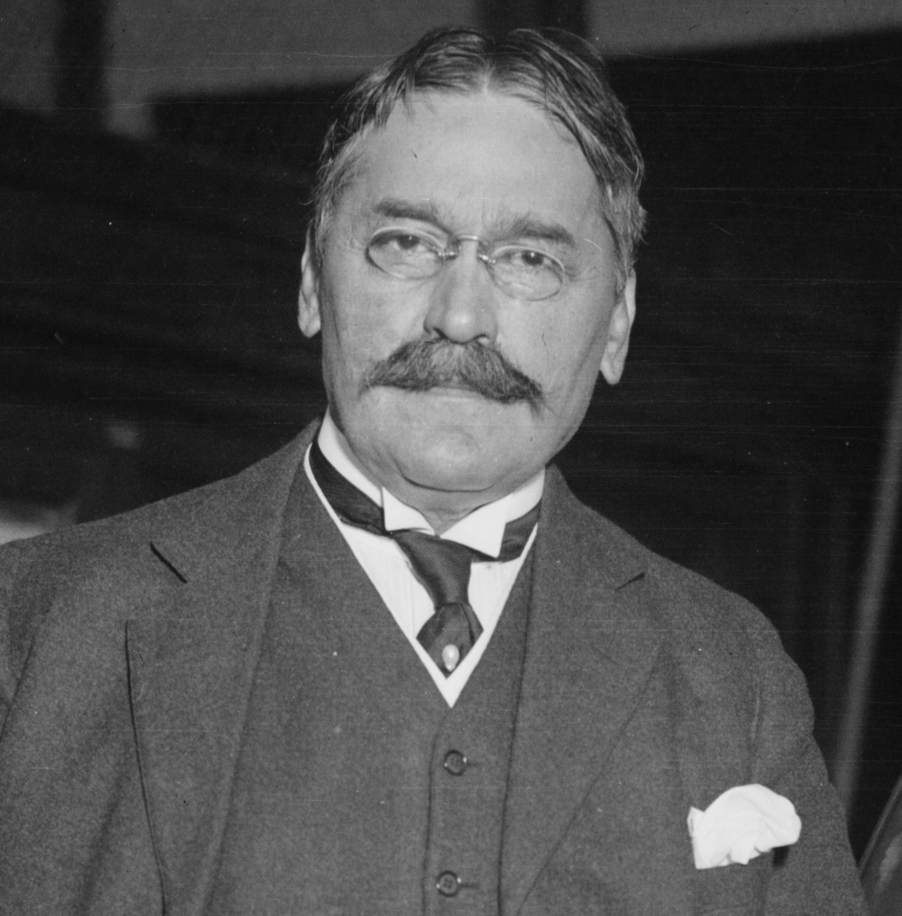 Mihajlo Pupin in 1916 cropped from a larger image